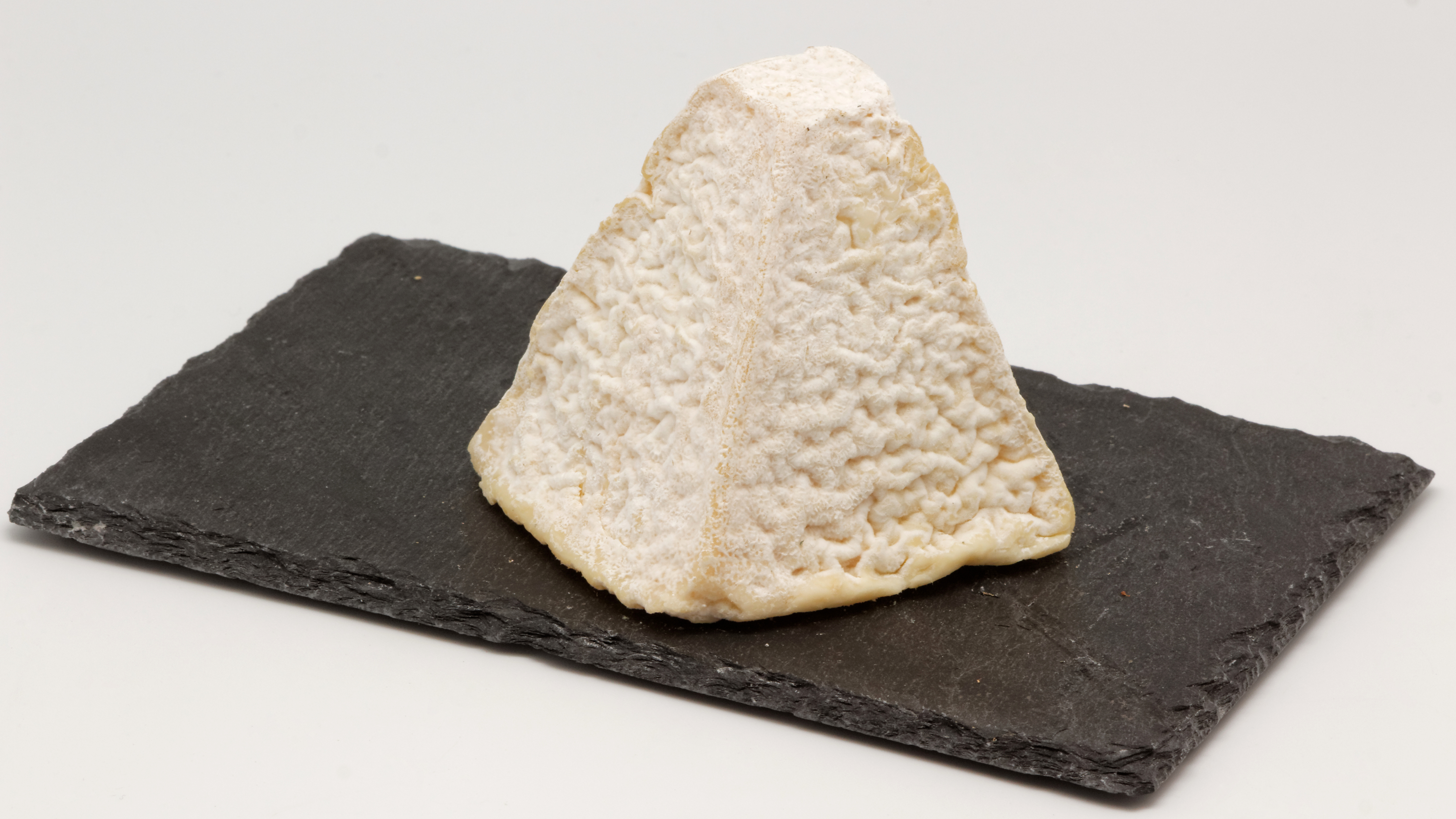 Pouligny-saint-pierre (goats'-milk cheese)